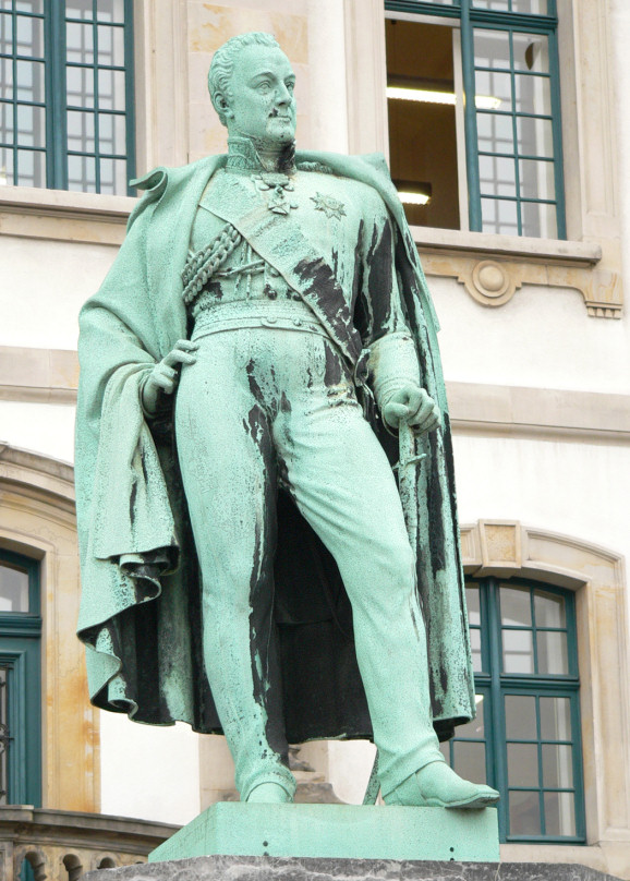 Statue of Charles Alten in front of the state archive of Lower Saxony.